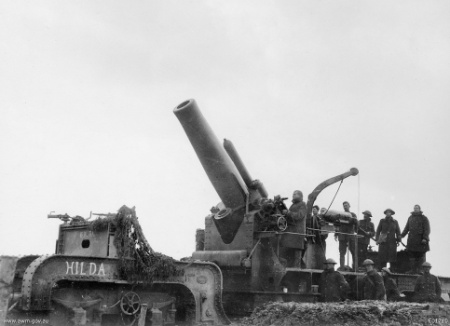 'Hilda', a 12 inch Mk I Howitzer on Railway Hill, in the Ypres sector. 'Hilda' was accustomed to taking up different positions on the railway line and firing on special targets in the enemy territory. Place made: Western Front: Western Front (Belgium), Ypres Area, Ypres